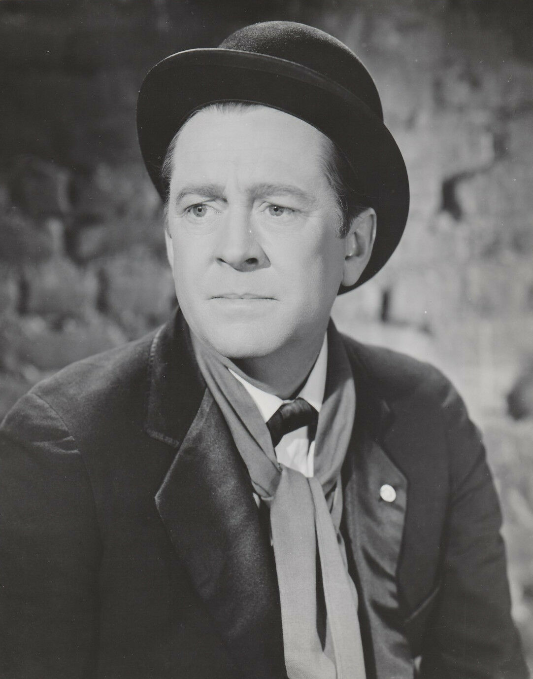 Publicity photo of James Dunn as Johnny Nolan in the 1945 film "A Tree Grows in Brooklyn" (front view)